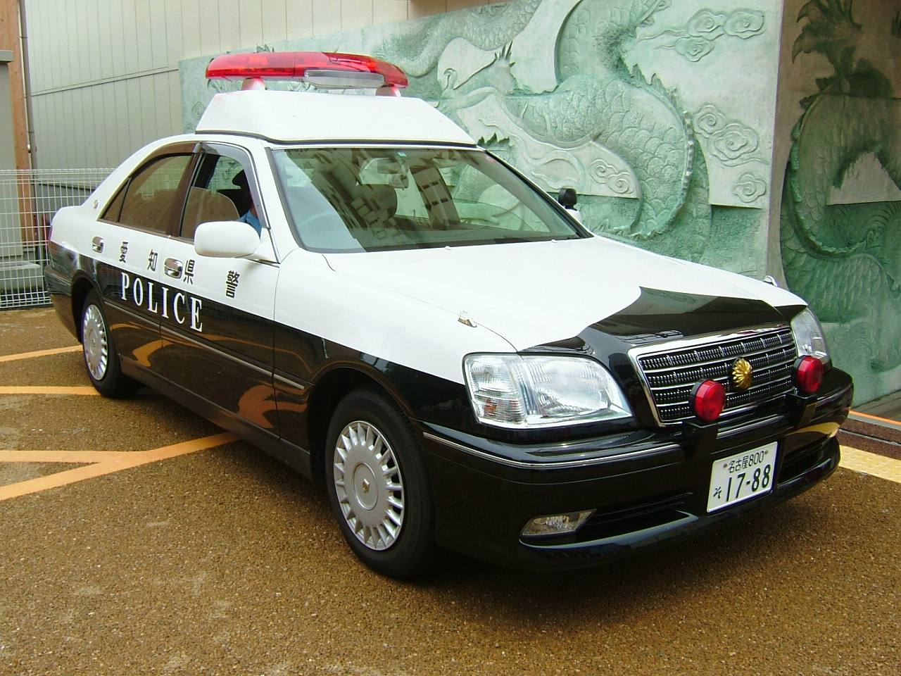 TOYOTA 170 system Crown police car This police car is vehicles while defending the China pavilion of Expo 2005 Aichi japan.